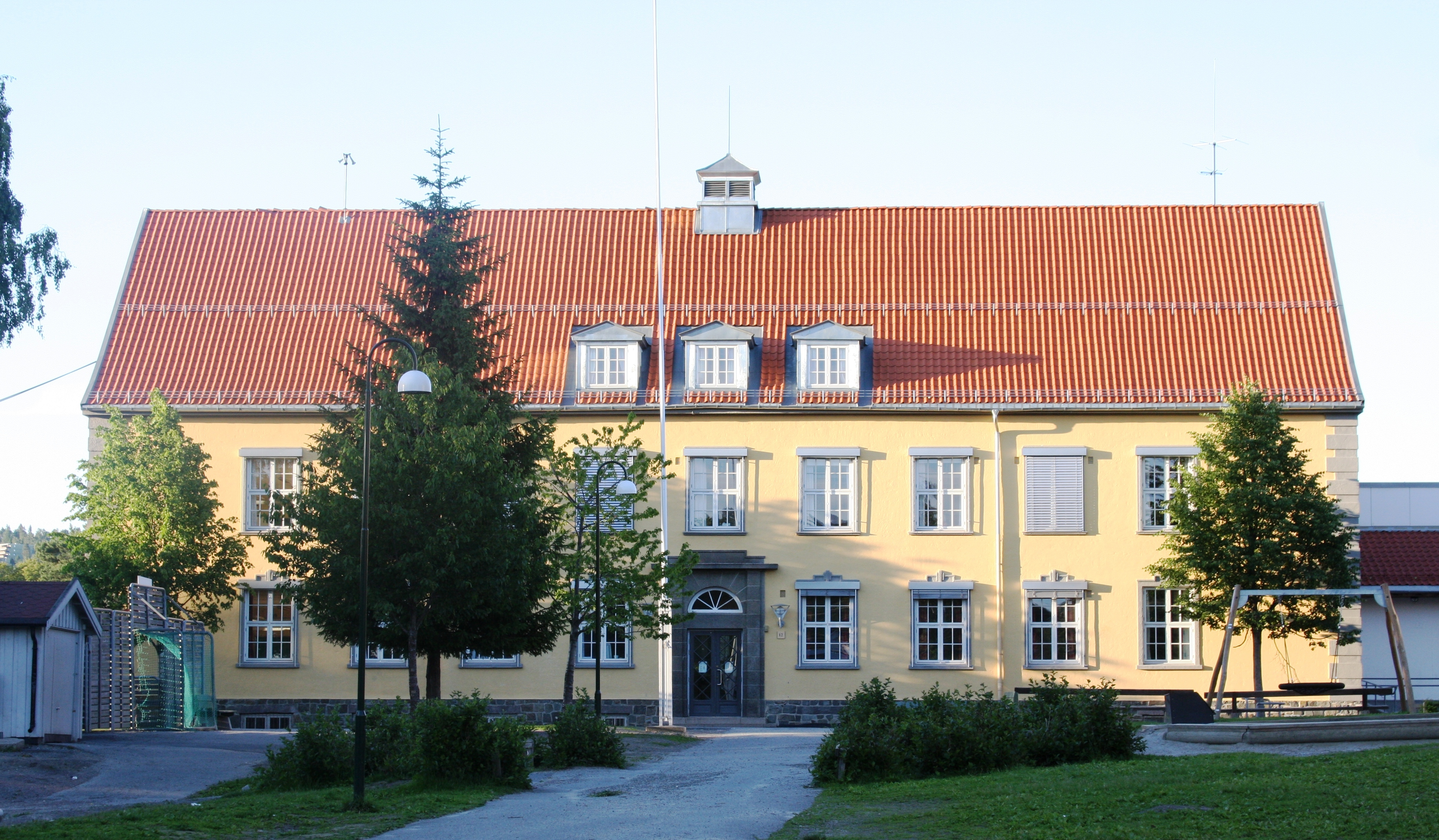 Jar skole (Jar elementary school), Bärum, Norway